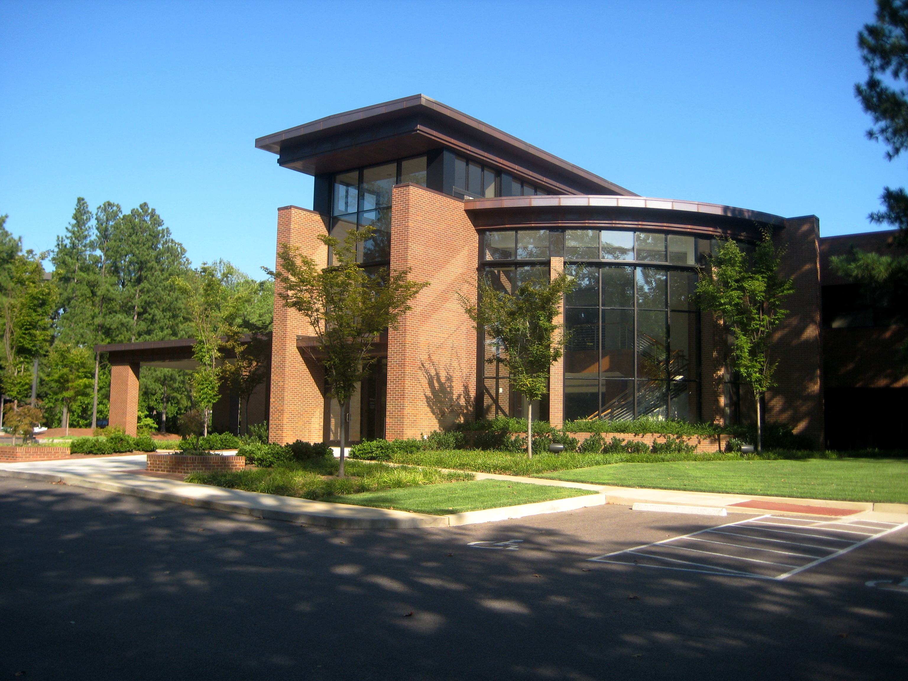 Everyday Entrance, Temple Israel (Memphis, Tennessee)